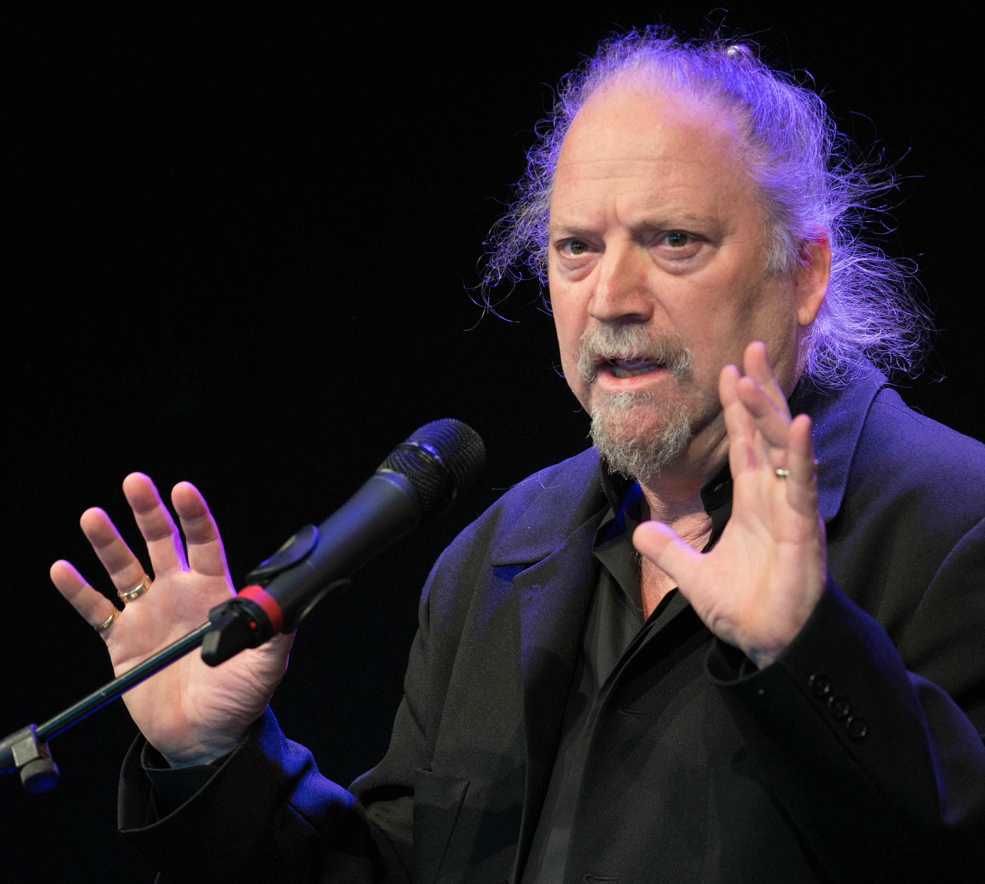 Dror Feiler in a rally in support of threatened artists and writers at the Kulturhuset Stadsteatern in Stockholm, February 14th 2015.